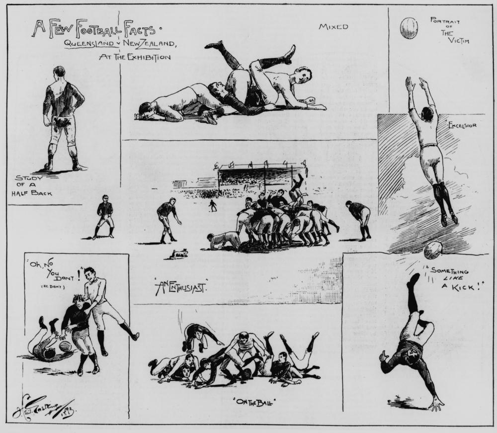 Title: A Few Football Facts – Queensland v New Zealand, At the ExhibitionA series of sketches taken of the touring New Zealand national rugby union team's match against Queensland in 1893. The New Zealanders played Queensland twice during their tour at the Exhibition grounds, winning both.